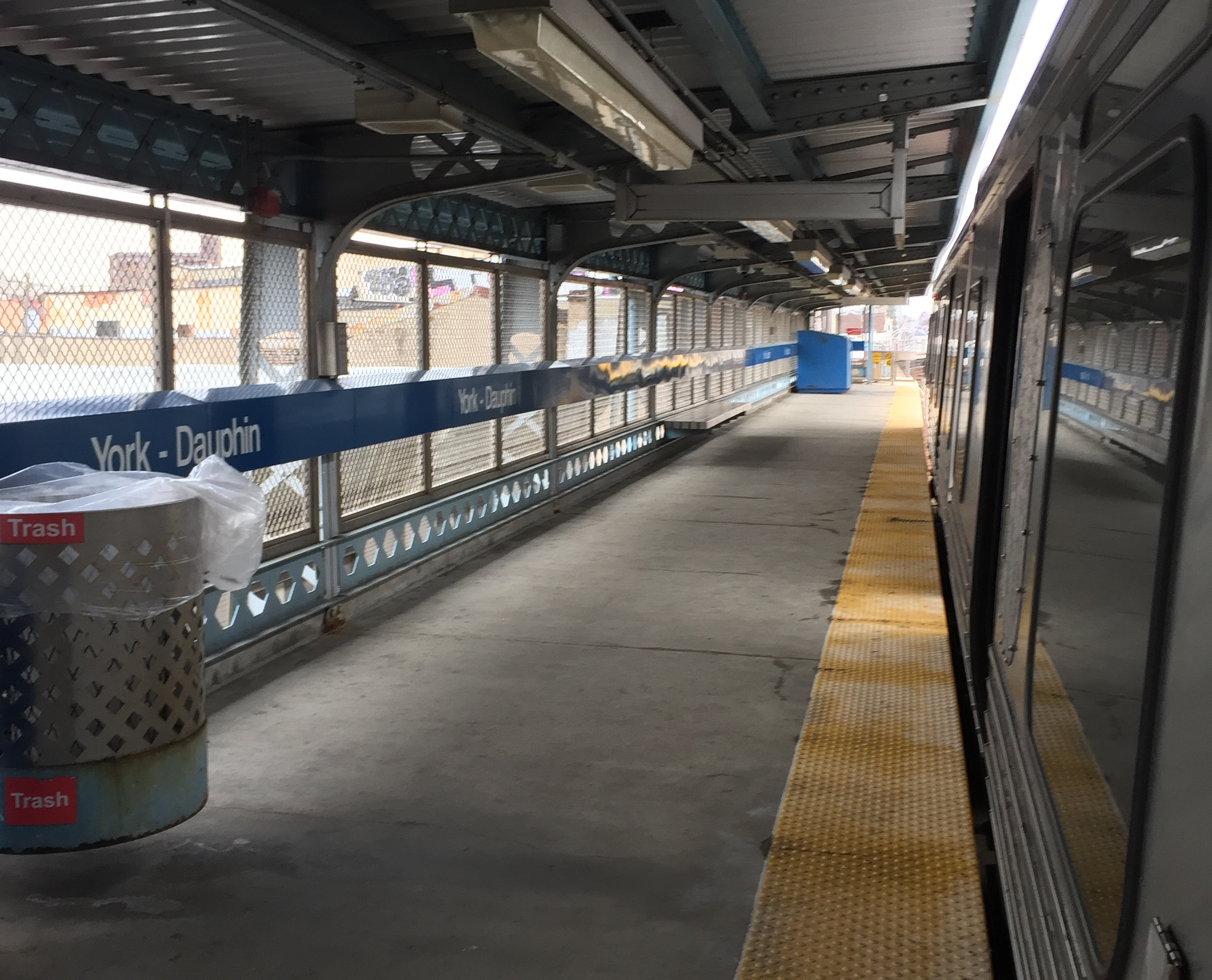 York Dauphin station on SEPTA Market–Frankford Line.